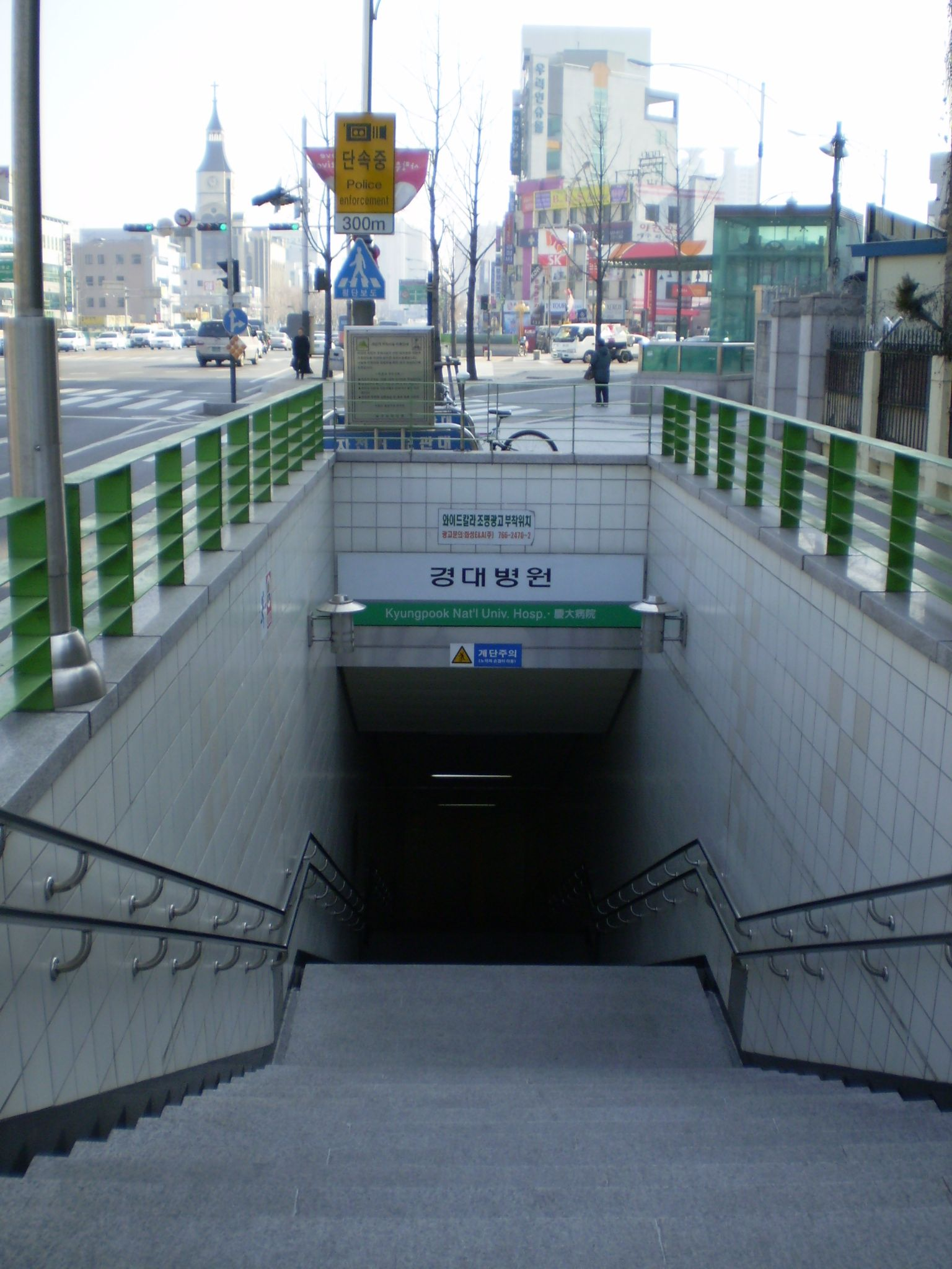 An entrance to the subway station for Kyungpook National University Hospital (Line 2) in Daegu, South Korea.